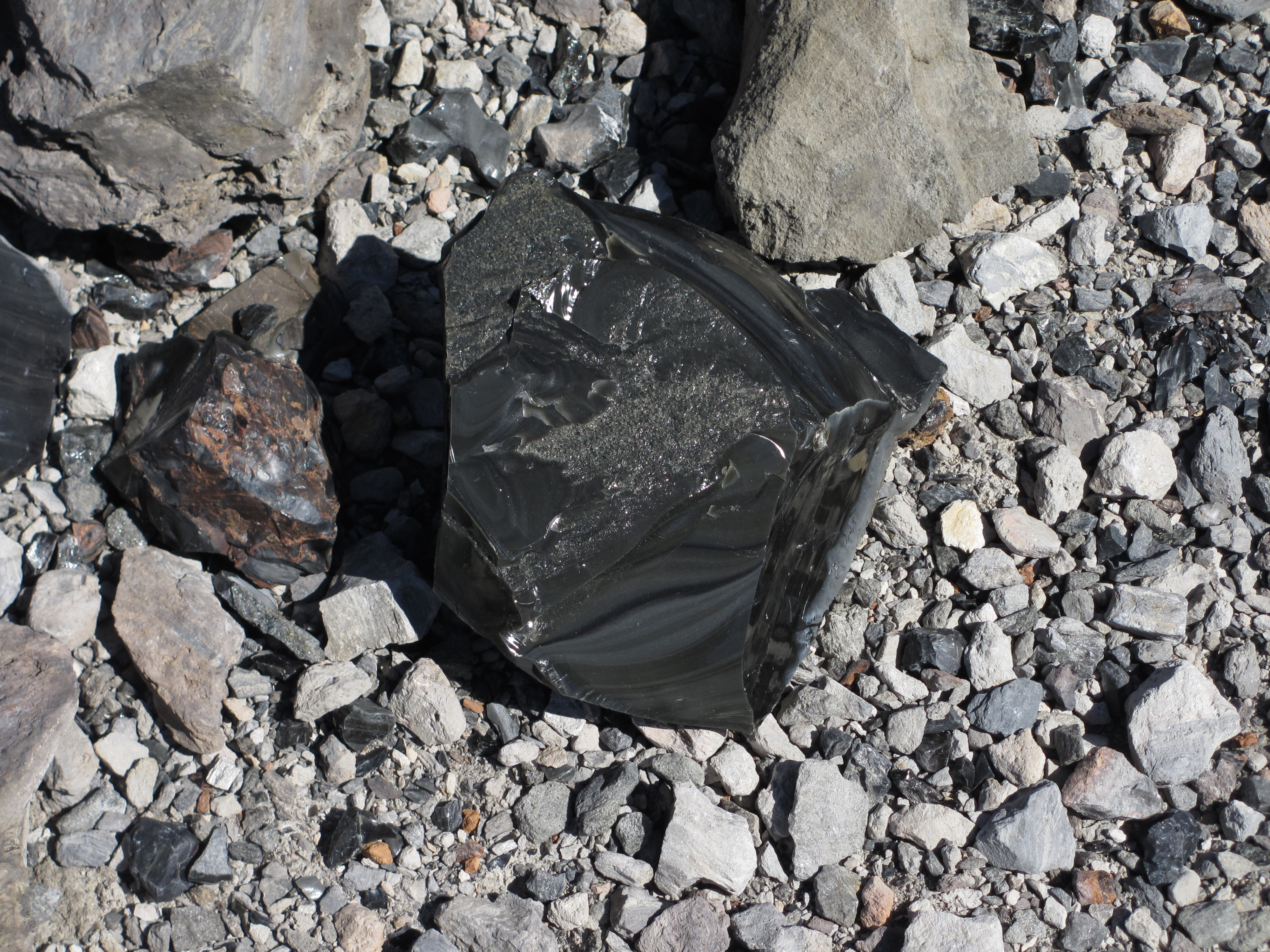 Glass Mountain, part of Medicine Lake Volcano in Northern California, USA